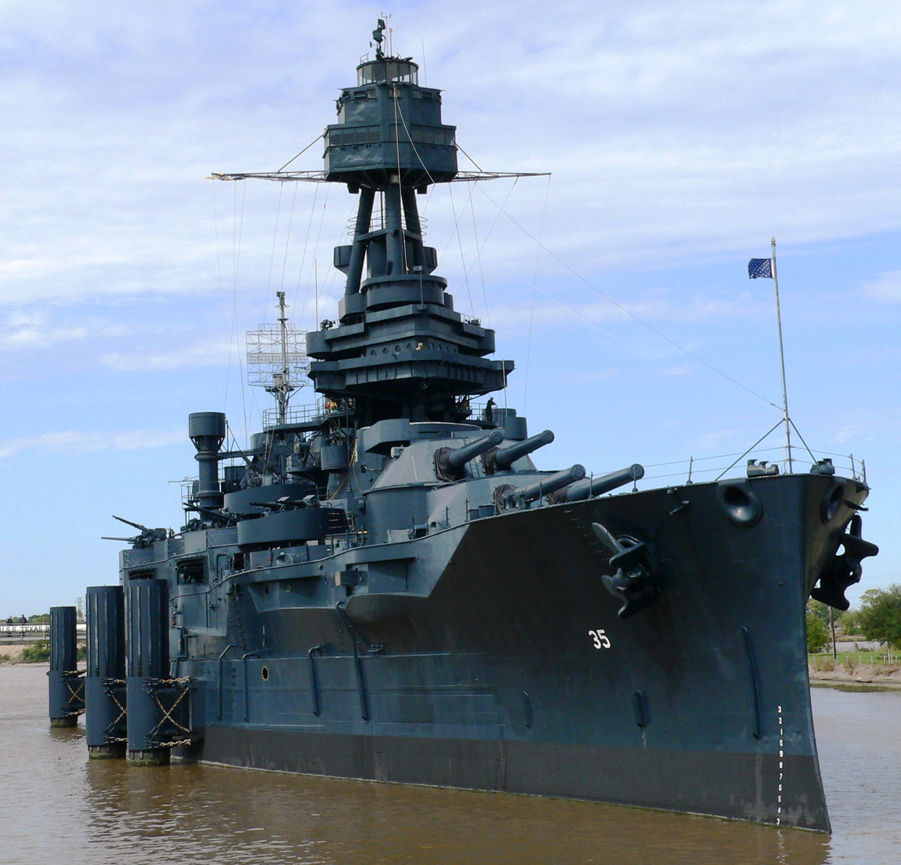 USS Texas in San Jacinto State Park, October 2006. The battleship is painted as it was in 1945 with Measure 21, Navy Blue System Camoflage. The camoflage was intended to make the battleship more difficult to detect from the air. Category:Images of Houston, Texas